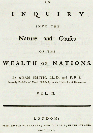 Title page of Adam Smith's Wealth of Nations, 1776.